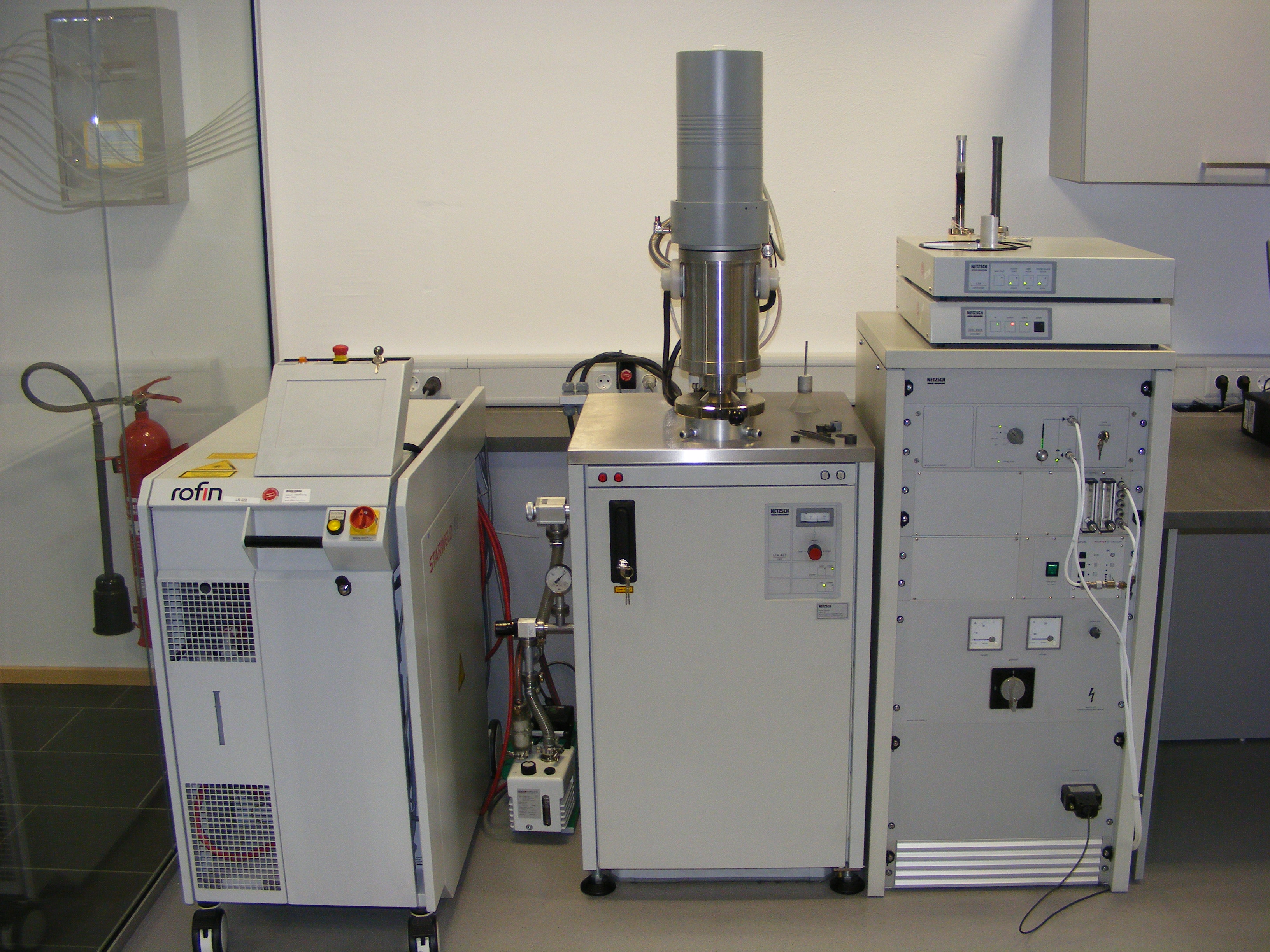 State-of-the-art laser flash apparatus to measure thermal diffusivity